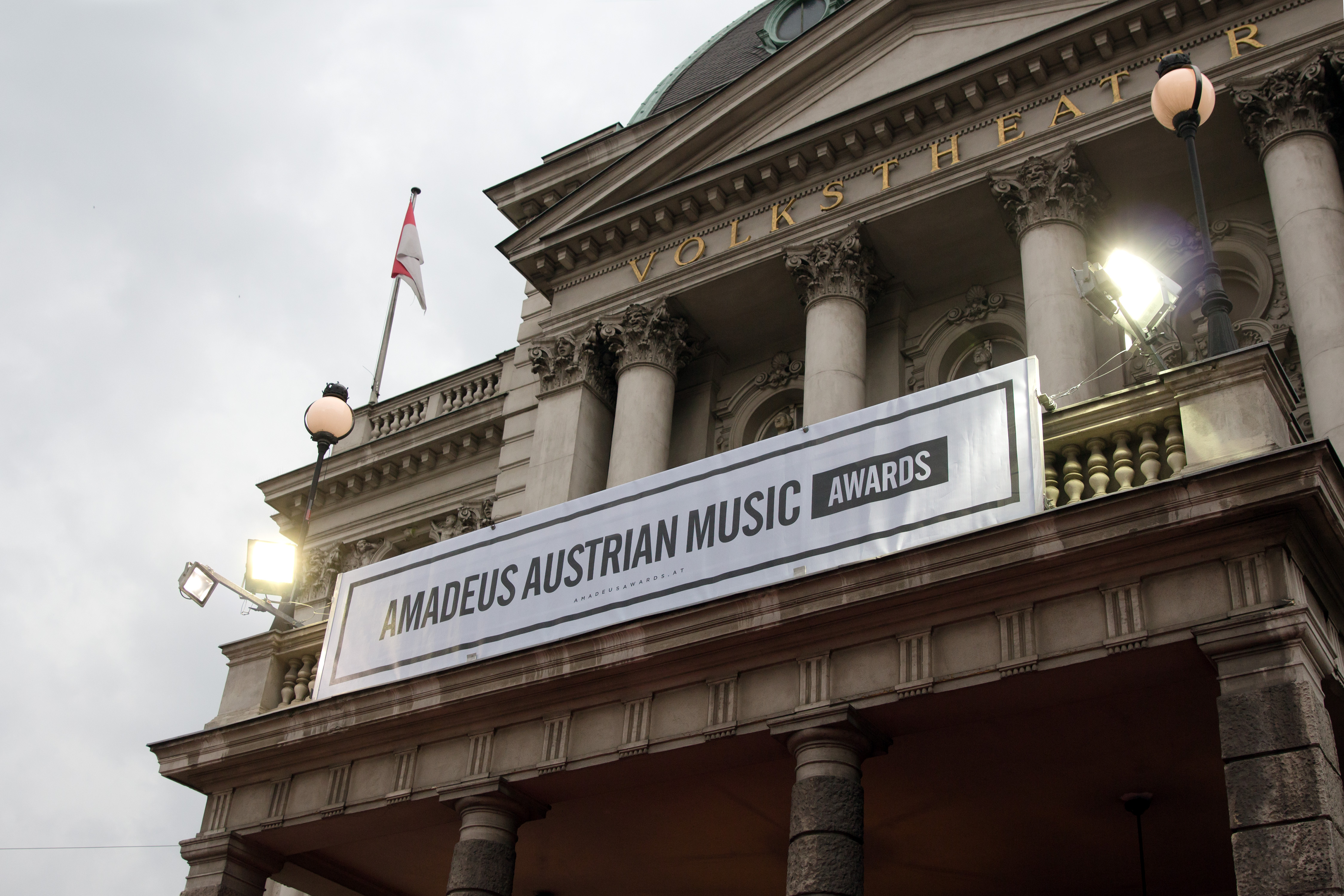 Amadeus Austrian Music Award 2017 at Volkstheater in Vienna.